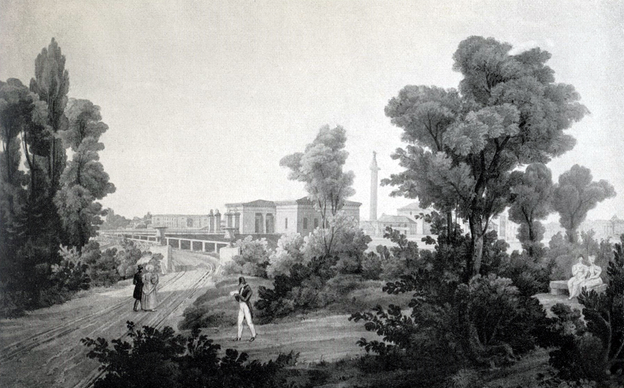 City gate 1834 in Hanover by Rudolf Wiegmann.